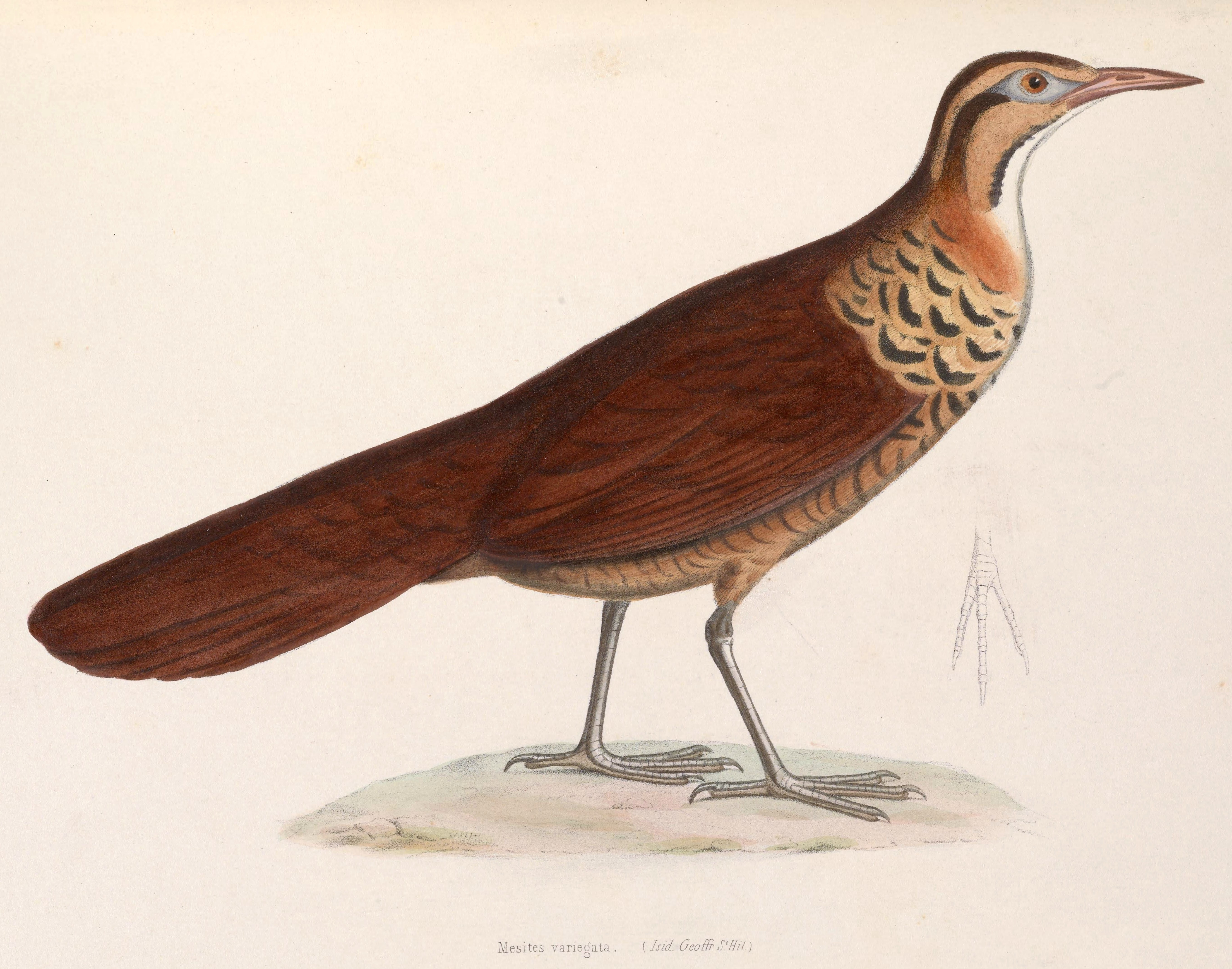 Mesites variegata = Mesitornis variegatus (White-breasted Mesite)